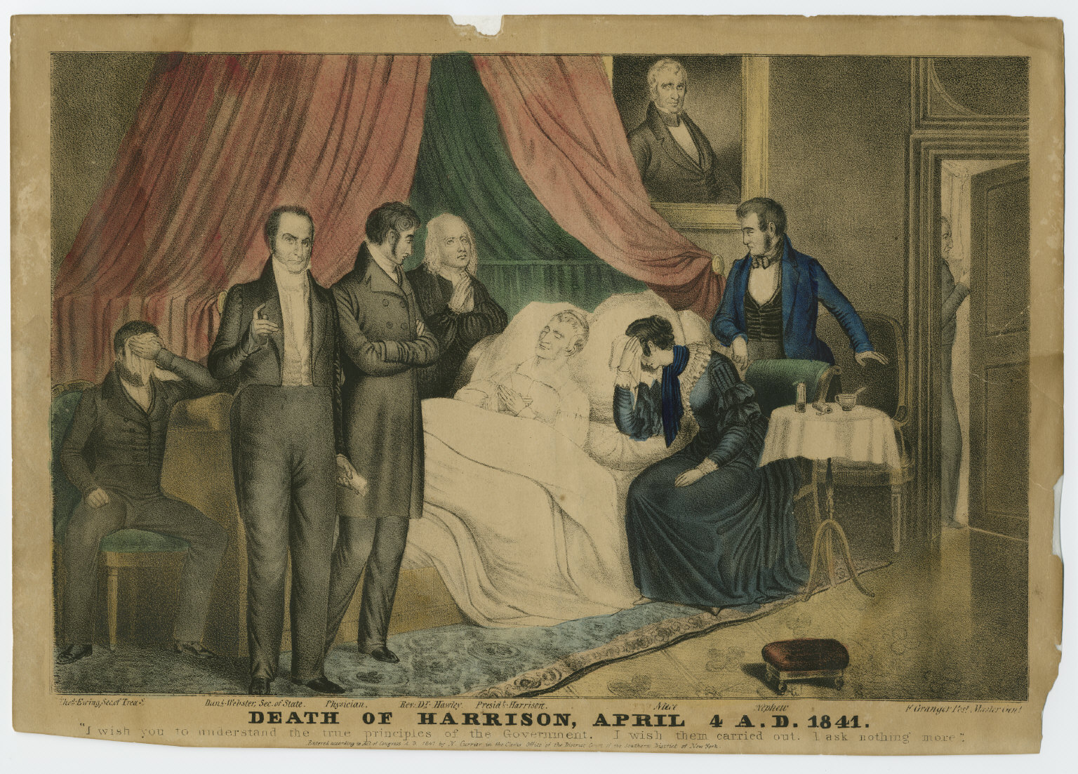 Collection: Cornell University Collection of Political Americana, Cornell University Library Repository: Susan H. Douglas Political Americana Collection, #2214 Rare & Manuscript Collections, Cornell University Library, Cornell University Title: Death of Harrison, April 4 A.D. 1841 Political Party: Whig Date Made: 1841 Measurement: Print: 9.75 x 14 in.; 24.765 x 35.56 cm Classification: Prints Persistent URI: There are no known U.S. copyright restrictions on this image. The digital file is owned by the Cornell University Library which is making it freely available with the request that, when possible, the Library be credited as its source.